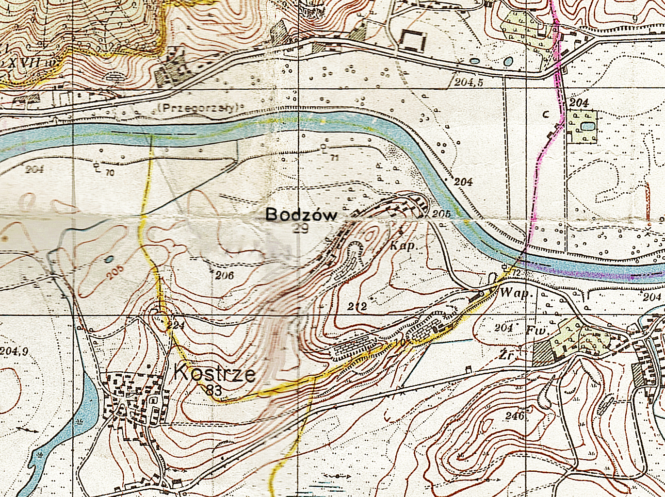 Map of Bodzów (1934), Krakow, Poland